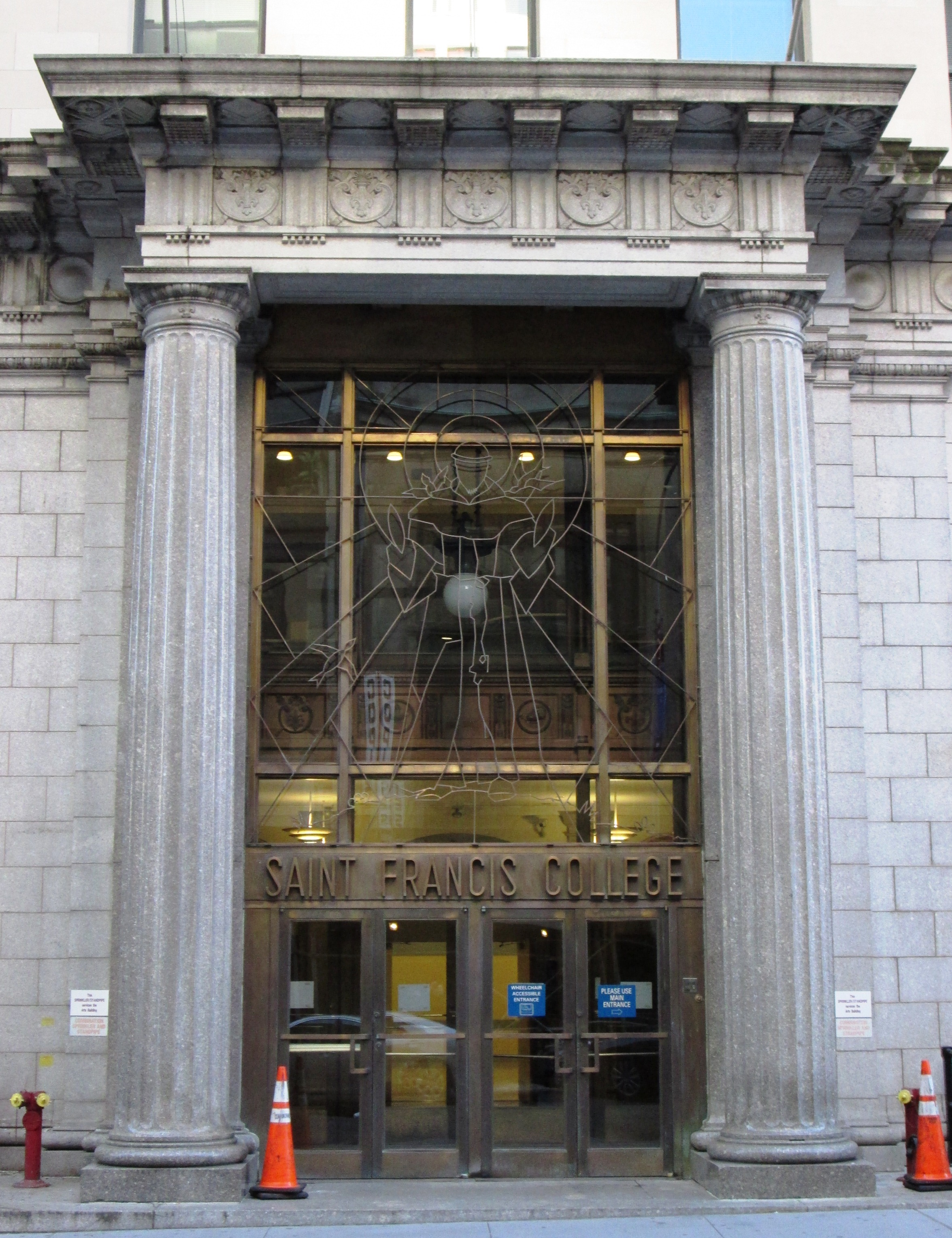 The former Brooklyn Union Gas Company Headquarters building at 180 Remsen Street in the Brooklyn Heights neighborhood of Brooklyn, New York City, was built in 1914 and was designed by Frank Freeman. The company occupied it until 1962. It is now the Arts Building of St. Francis College. (Source: AIA Guide to NYC (5th ed))